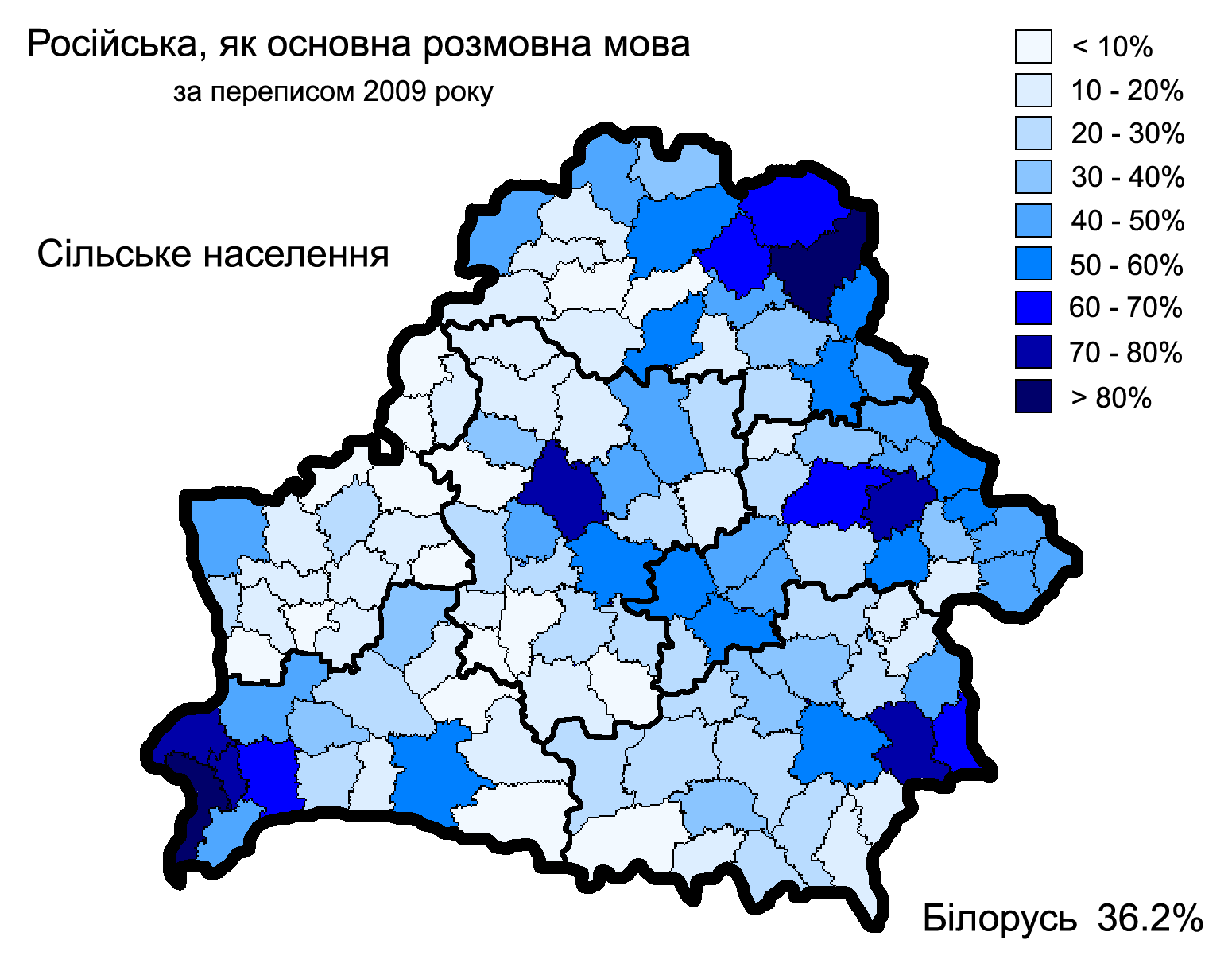 Russian as a "language spoken at home" among the rural population according to the 2009 Belarus Census